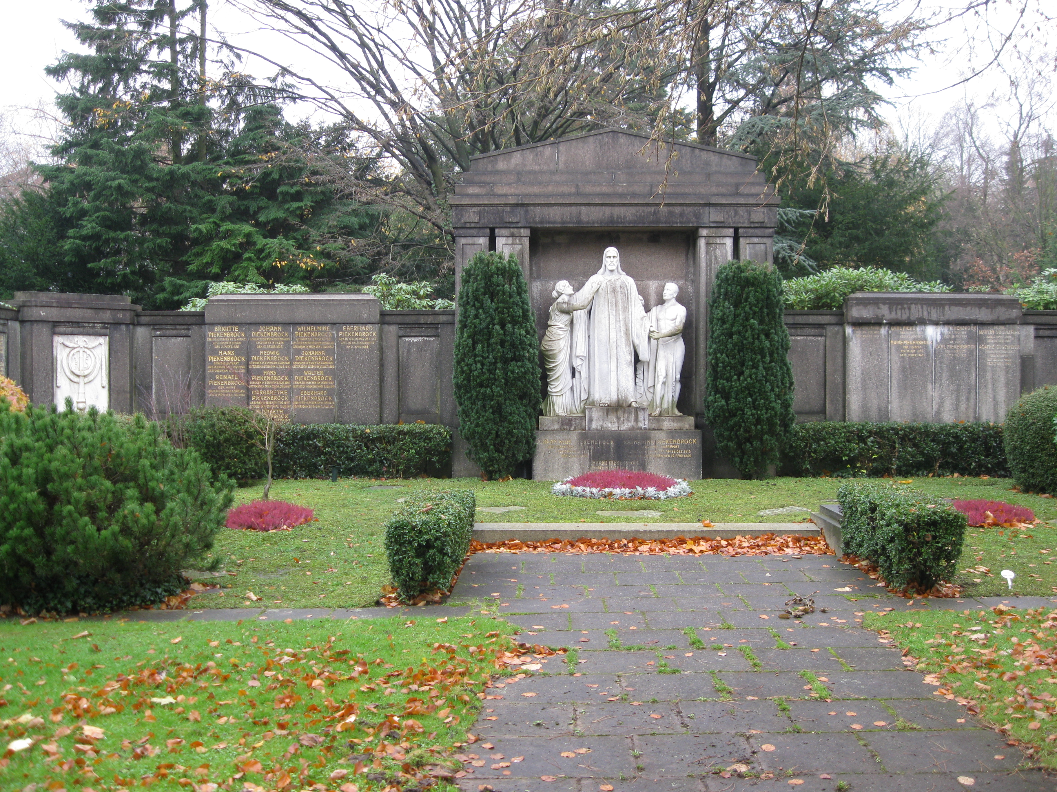 Family Tomb of the Piekenbrock Family in Essen / Germany ( at the Ostfriedhof)